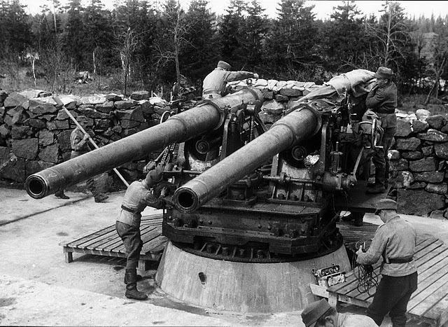 Finnish 120/50 V2 artillery on Rautaveräjä battery in Valamo in the spring 1942.